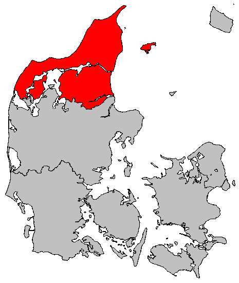 Location map of Region Nordjylland in Denmark. Created by User:Valentinian based on Image:Map DK Odense.PNG created by User:Michiel1972 who released the latter image under PD.